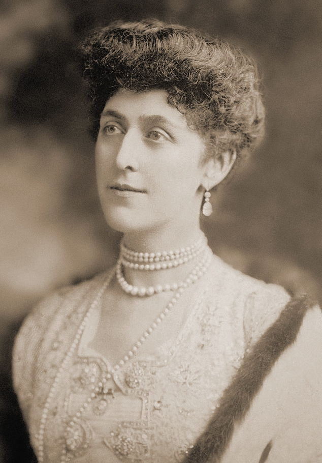 Marchioness of Ripon